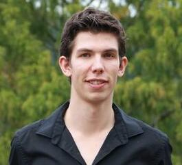 James Maynard, Oberwolfach 2013